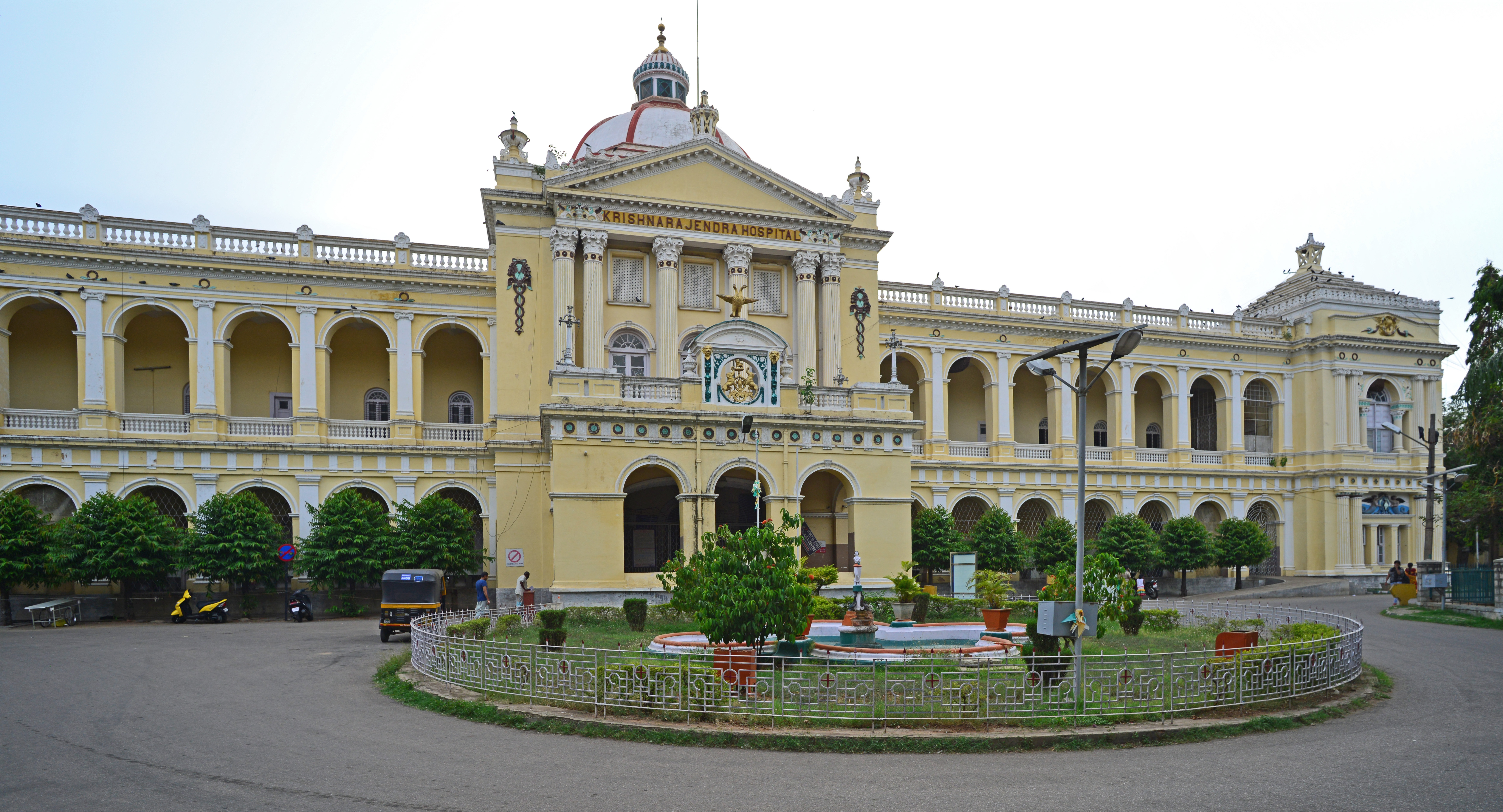 Krishnarajendra Hospital, Mysore